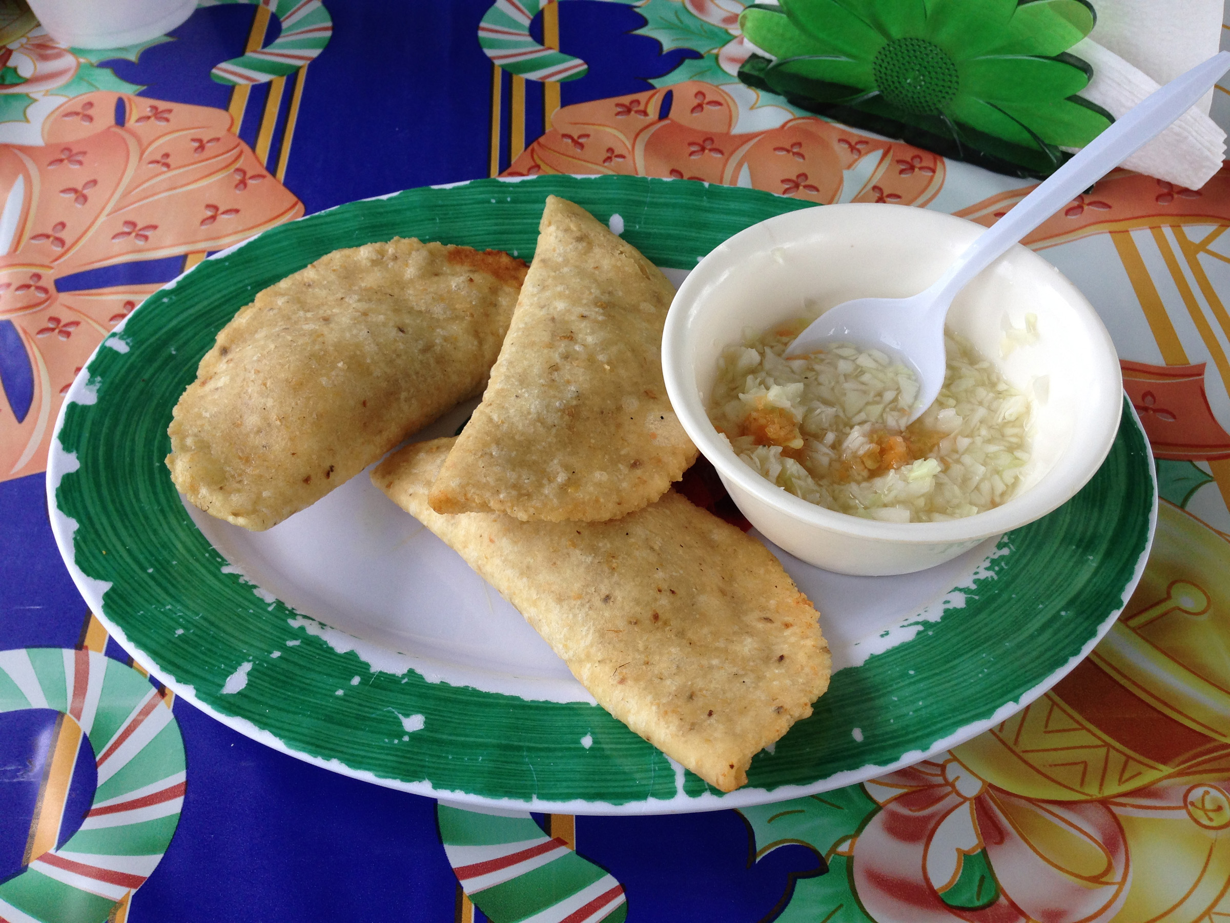 Fish panades with cabbage and onion salsa in Belmopan, Belize